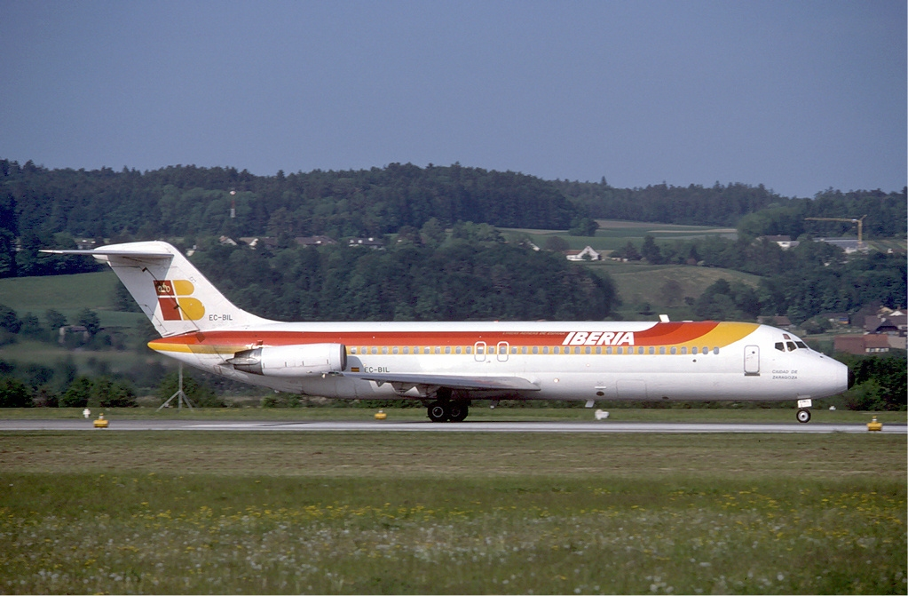 Iberia McDonnell Douglas DC-9-32 at Zurich Airport in May 1985